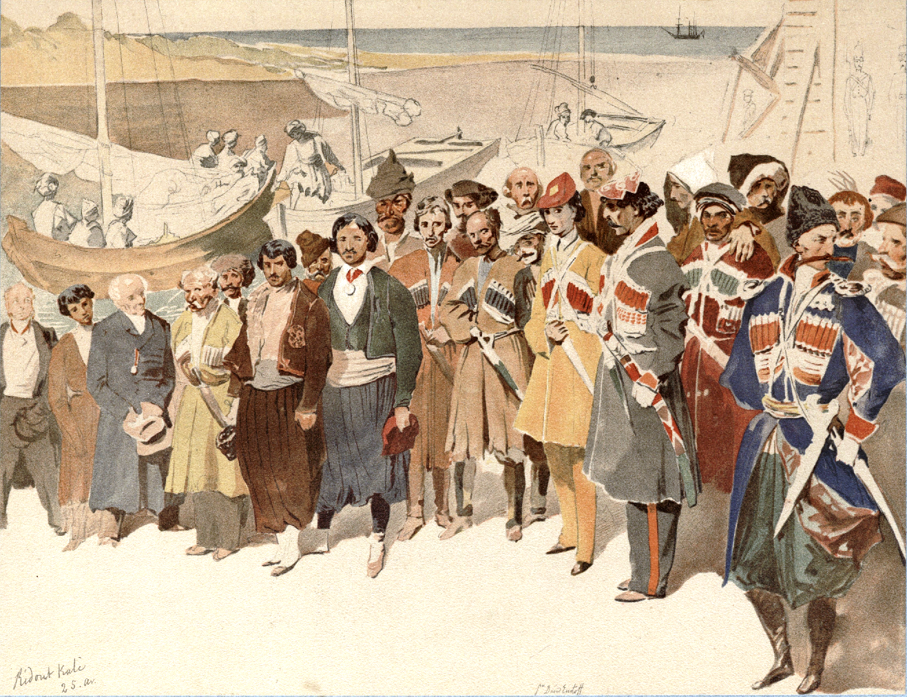 Gagarin. Types of inhabitants of Redout-Kale. Dessins et croquis d'après nature